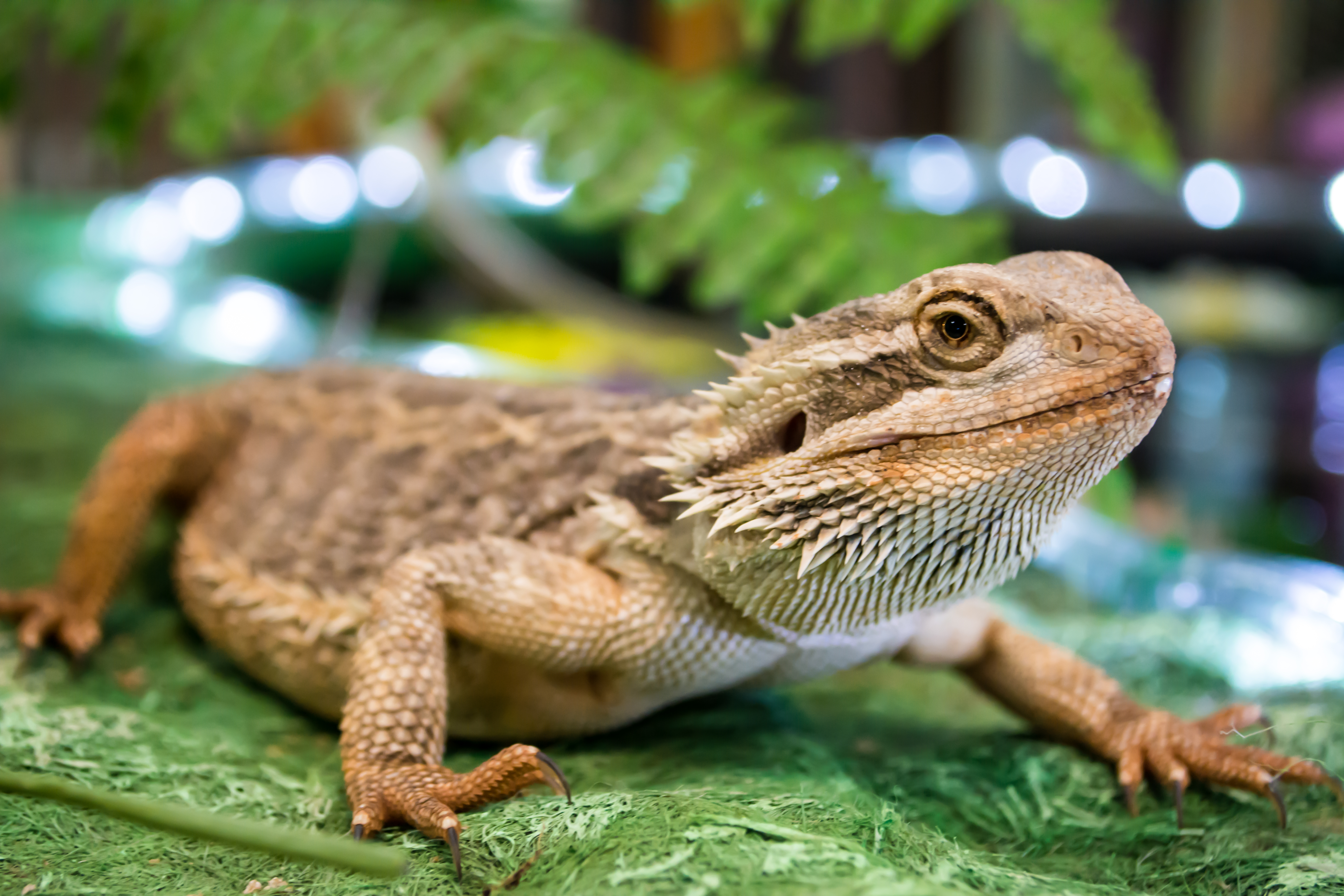 Bearded Agama — (lat. Pogona vitticeps) a lizard of the family agemovie